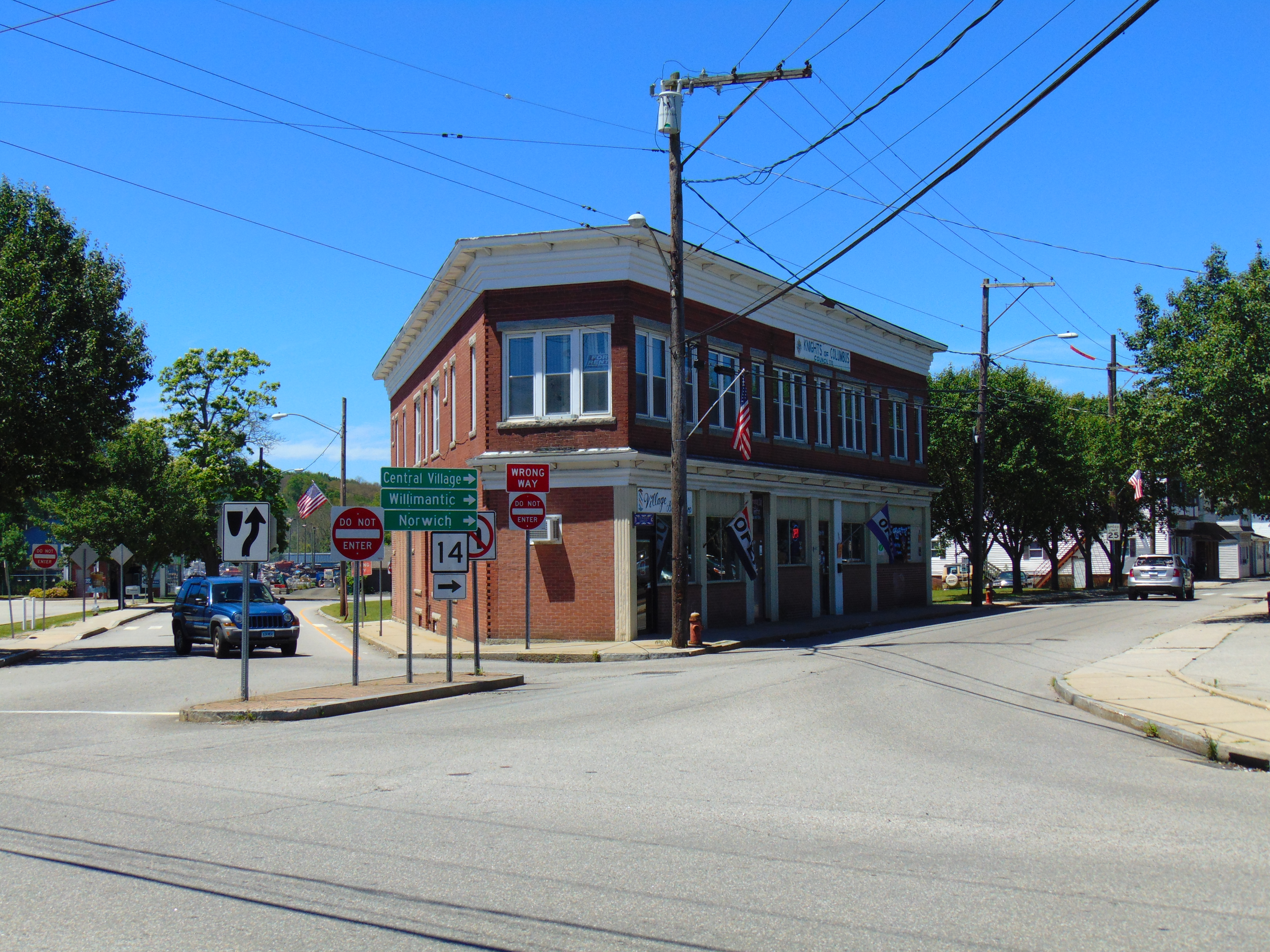 Downtown Moosup, Connecticut